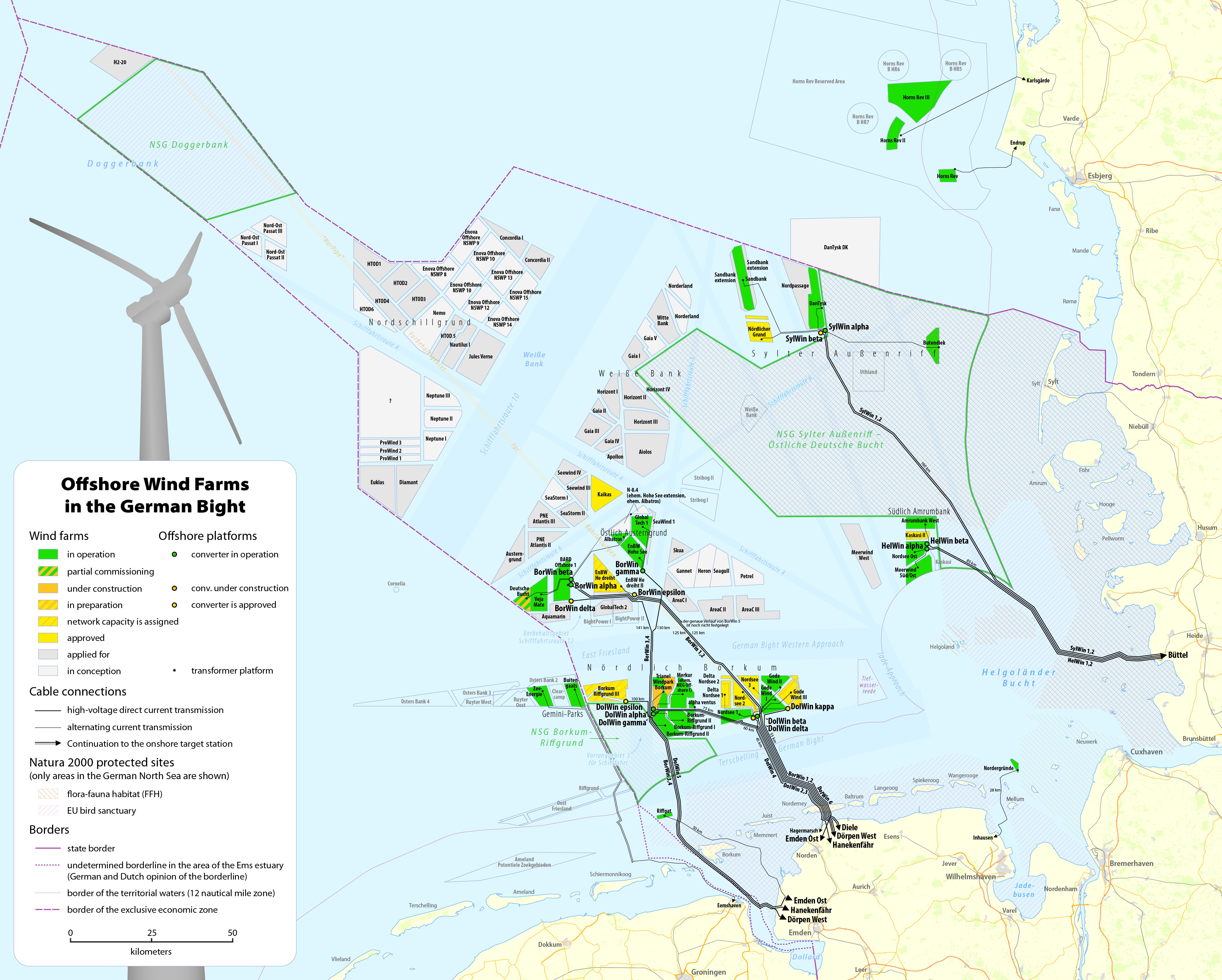 Map of offshore wind farms and connecting power cables in the German Bight